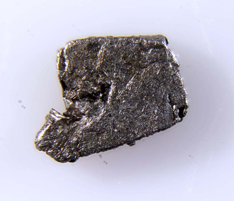 Cubic crystal of the extremely rare palladium-tin mineral atokite (Pd3Sn) associated to isoferroplatinum from Komsomolski District, Khabarovsk Krai, Russian Federation. Analyzed specimen.